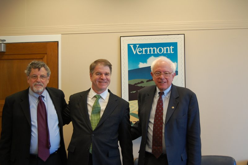 Senator Bernie Sanders and his Chief of Staff, Huck Gutman, met with University of Vermont President Daniel Fogel (center) to discuss Pell grants and new opportunities through the recently passed stimulus legislation, which provides funding for educating more primary care physicians.